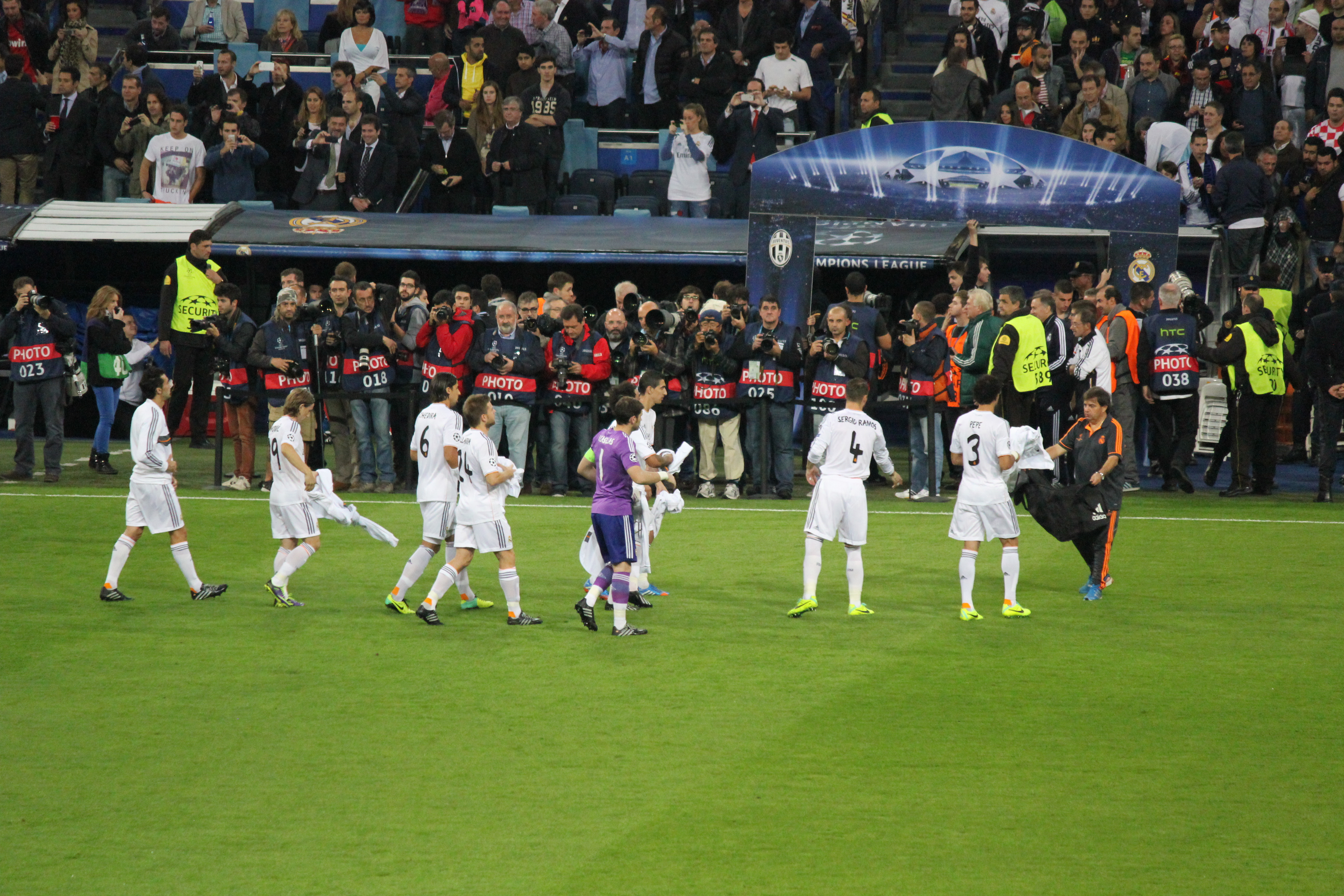 Real Madrid vs Juventus, 24 October 2013 Champions League